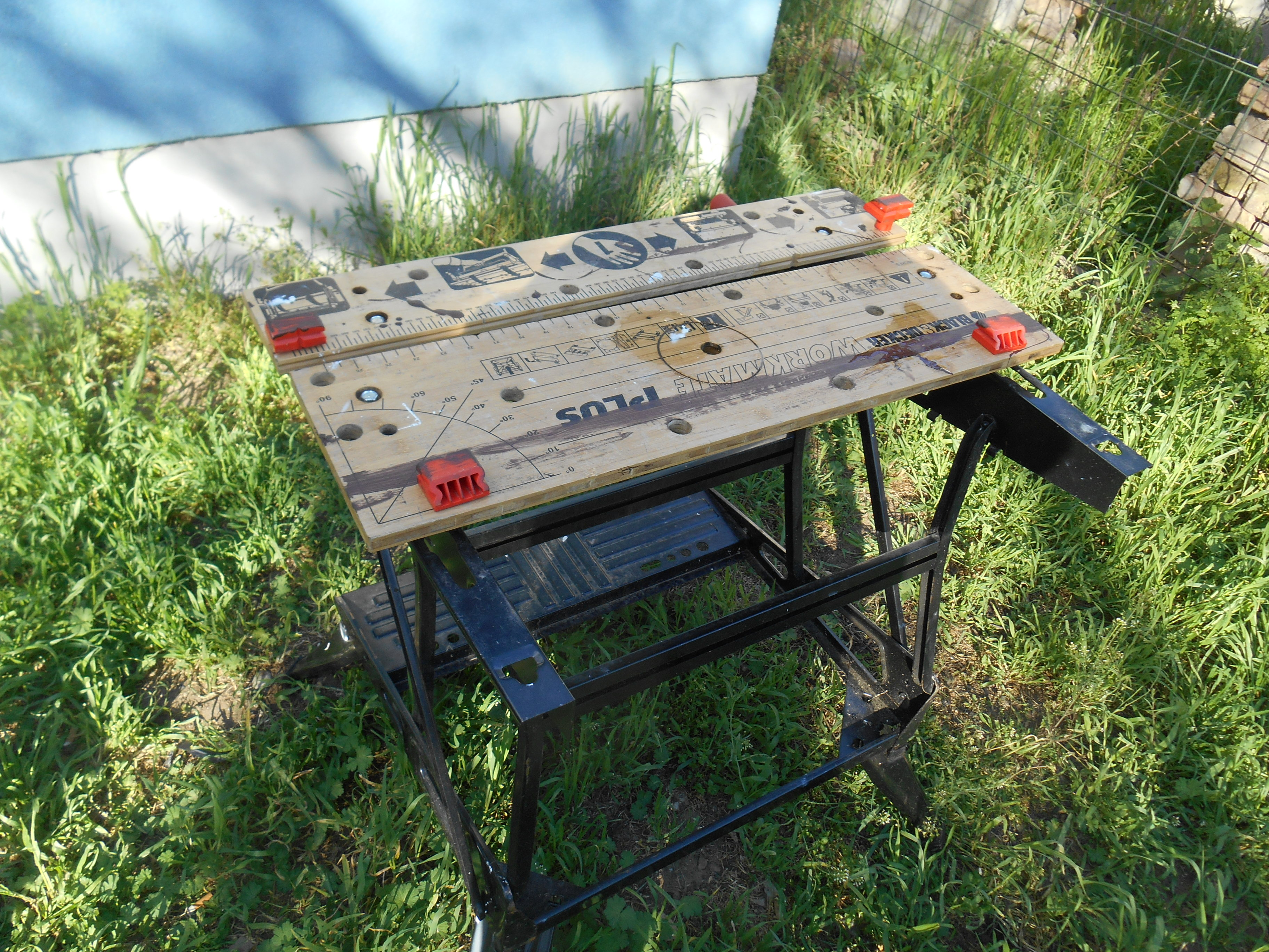 A "Black and Decker WorkMate", a general-purpose sturdy sawhorse and vice that is very popular in the United Kingdom for carpentry and other DIY jobs.